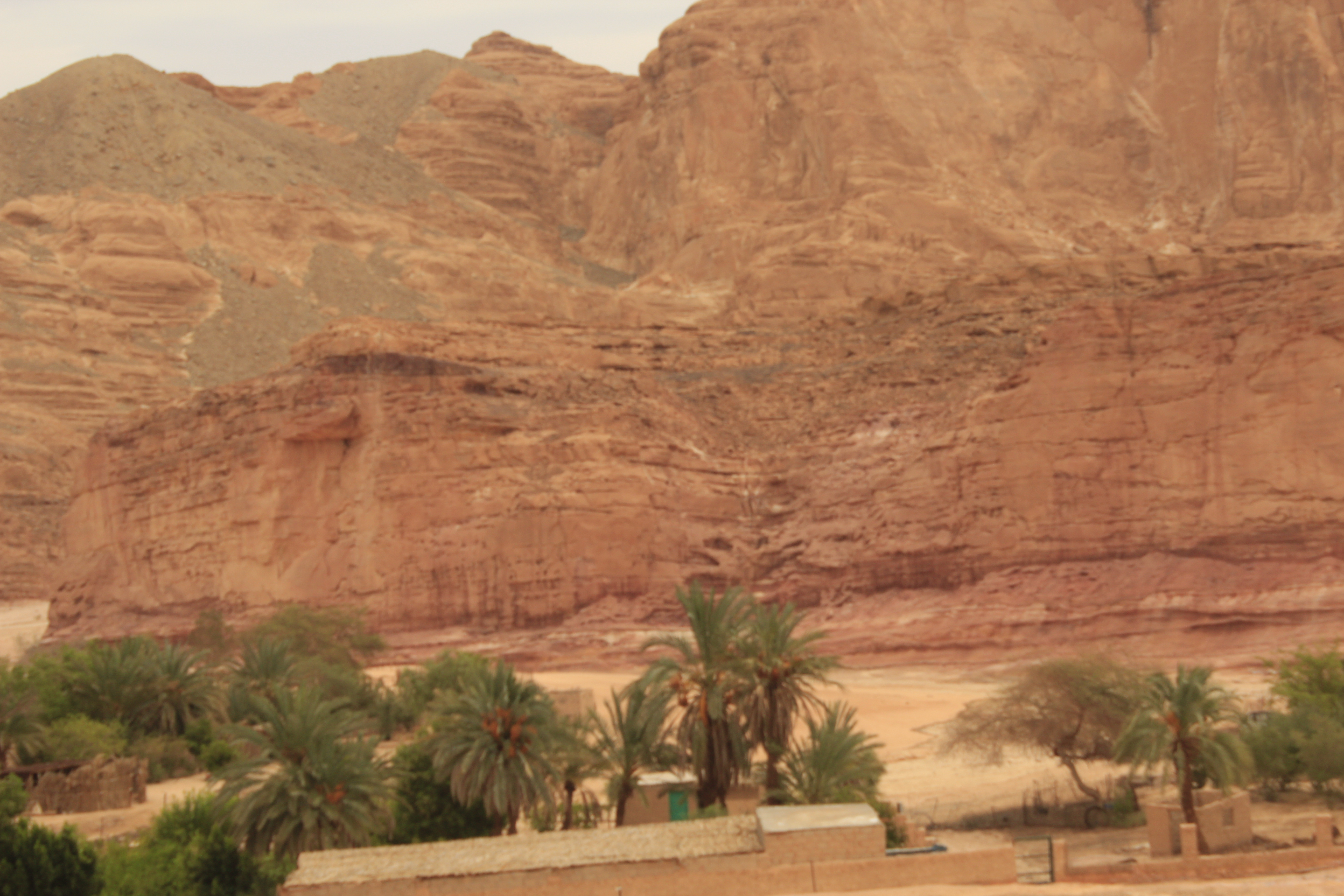 colored rocks in Nuweiba